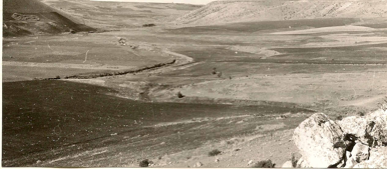 View of oued Mellah valley upstream the dam, taken north-west side, showing the cultivated slopes (right side) and the station of Acacia gummifera (left side)